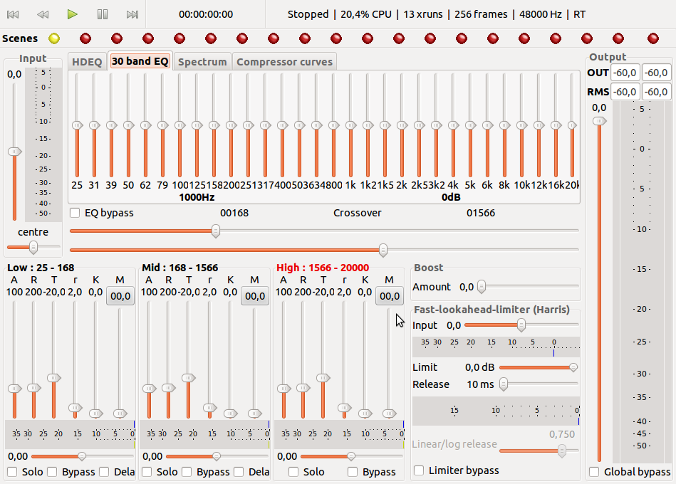 JAMin Main Window